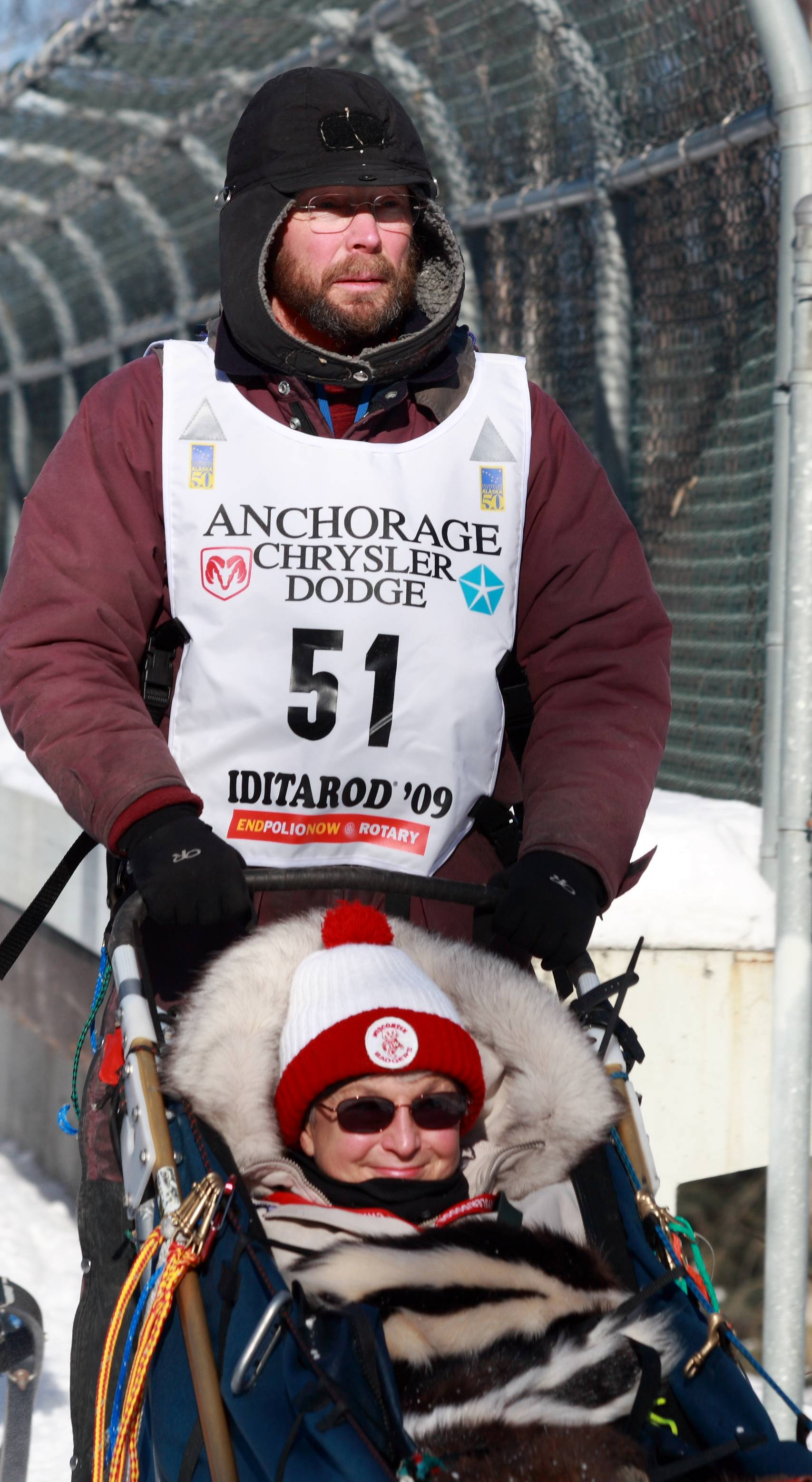 I took these photos on 8 March 2009 at the ceremonial start of the Iditarod sled dog race in Anchorage, Alaska. This was the 37th running of The Last Great Race. I get a thrill out of each race - the dogs were born to run and it is another thing that makes me proud to be an Alaskan! Note: for the ceremonial run the mushers have paying passengers - I think they are called Iditariders - these people bid on a chance to go on the ceremonial run. The actual Iditarod starts from Willow, Alaska, on the day after the ceremonial start, minus the Iditariders.